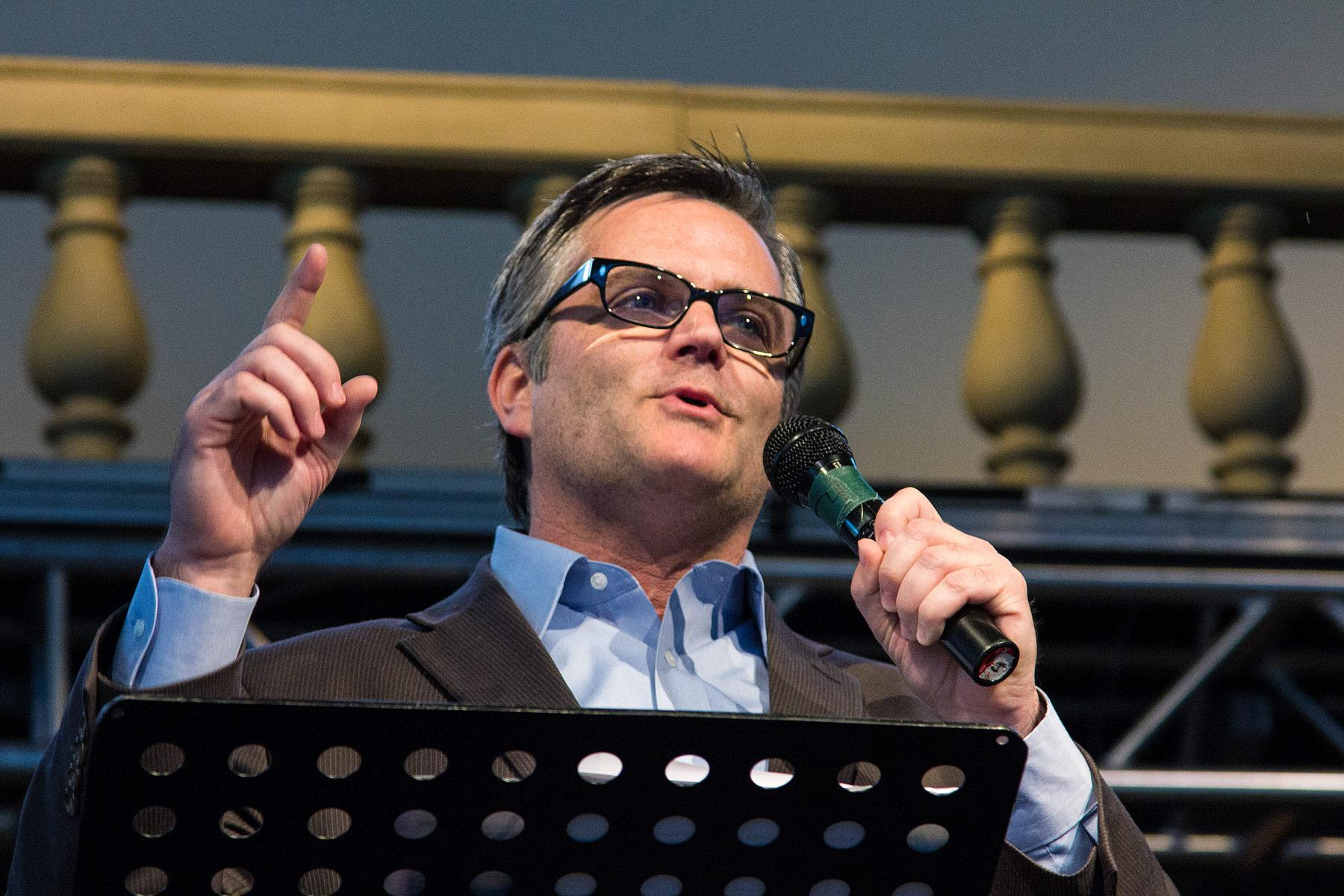 Taken by Matt Giraud at the BTA's Alice Awards